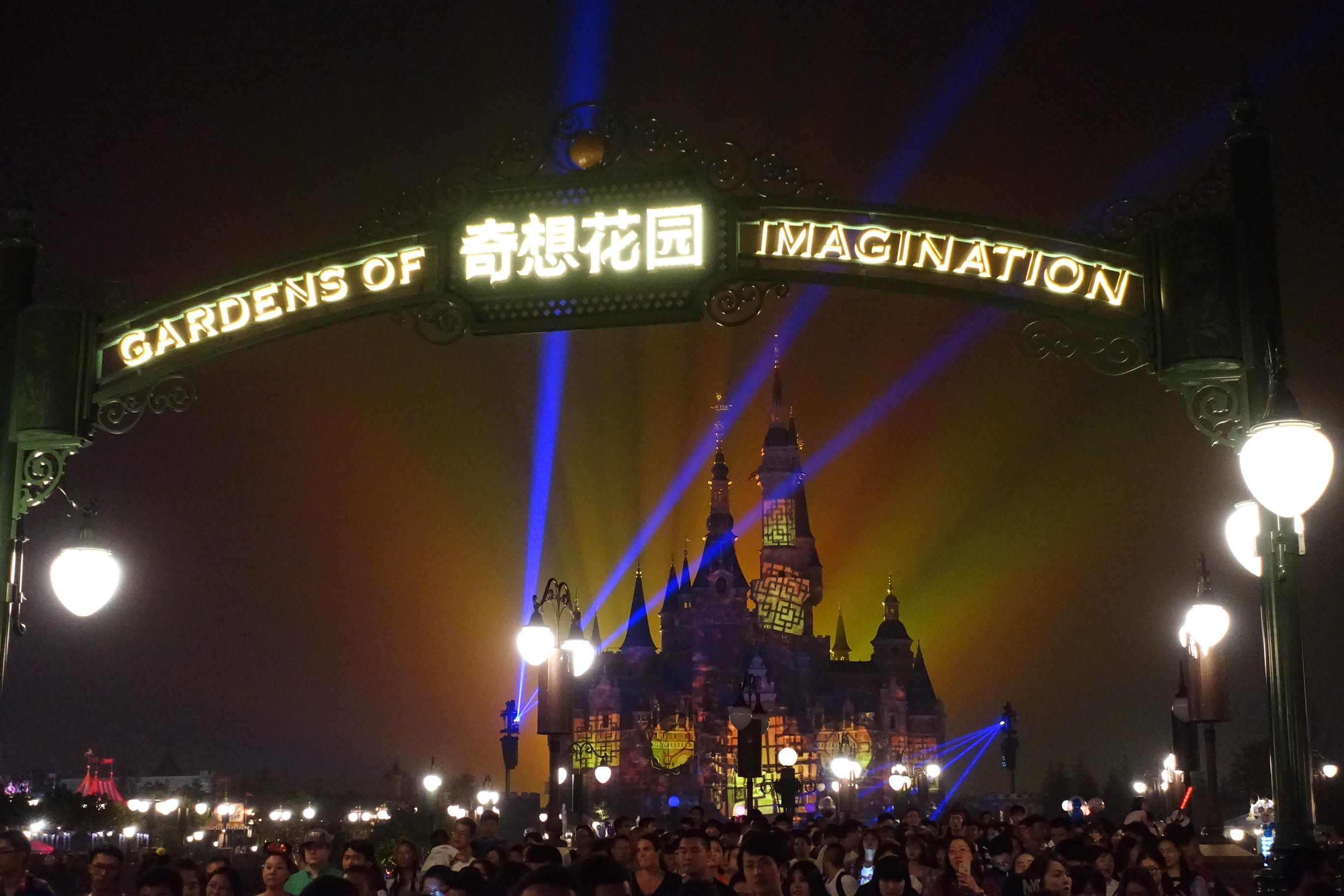 Gardens of Imagination